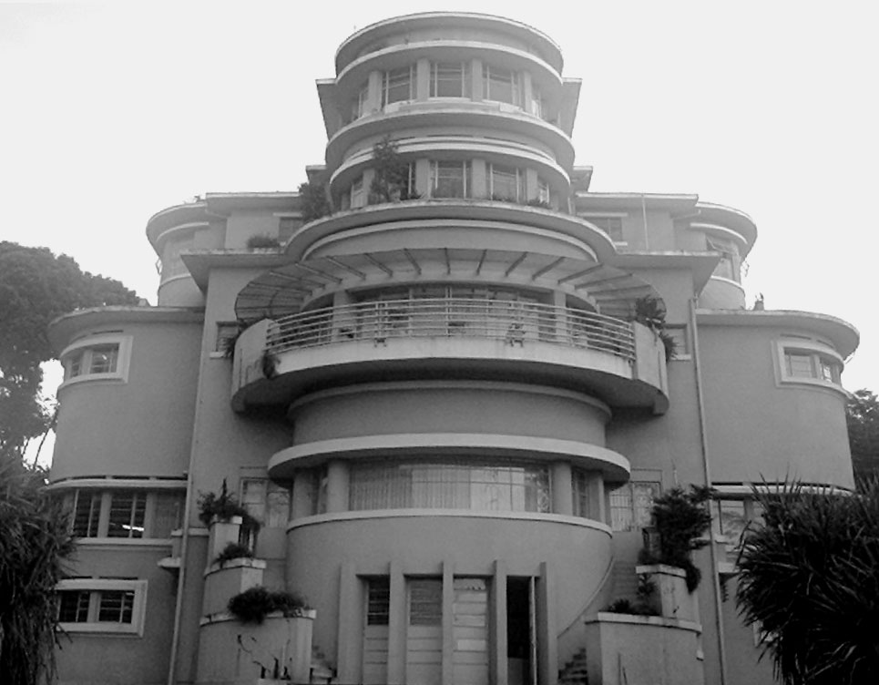 Villa Isola at north of Bandung.